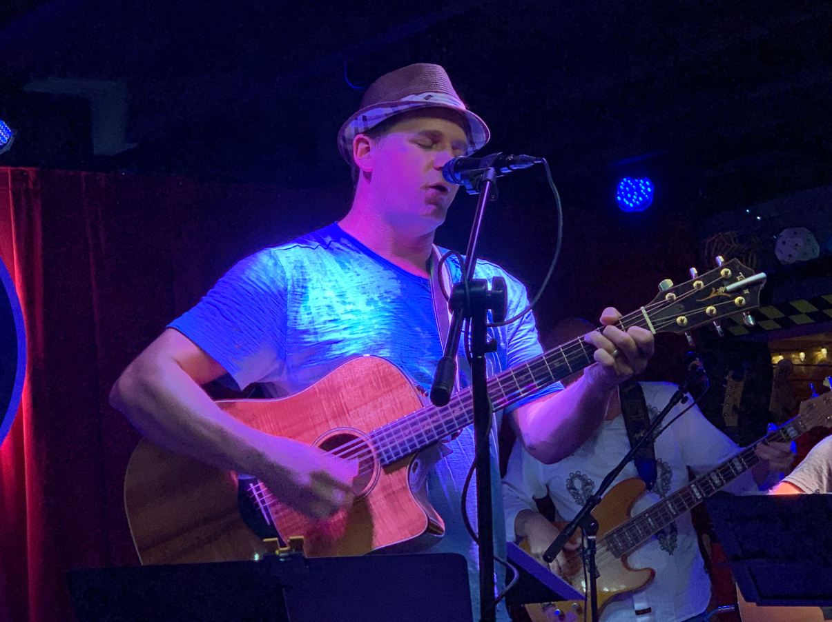 SJ performing at Open Mike's in Florida in December 2018